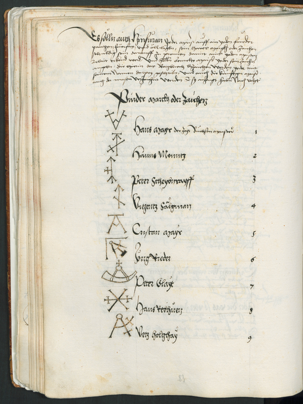 Brandings of the Bozen-Bolzano's coopers (Fassbinder, Küfer) from 1518